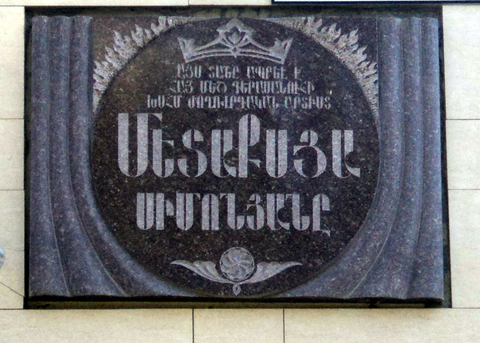 Մետաքսյա Սիմոնյանի հուշատախտակը Երևանում, Աբովյան 20